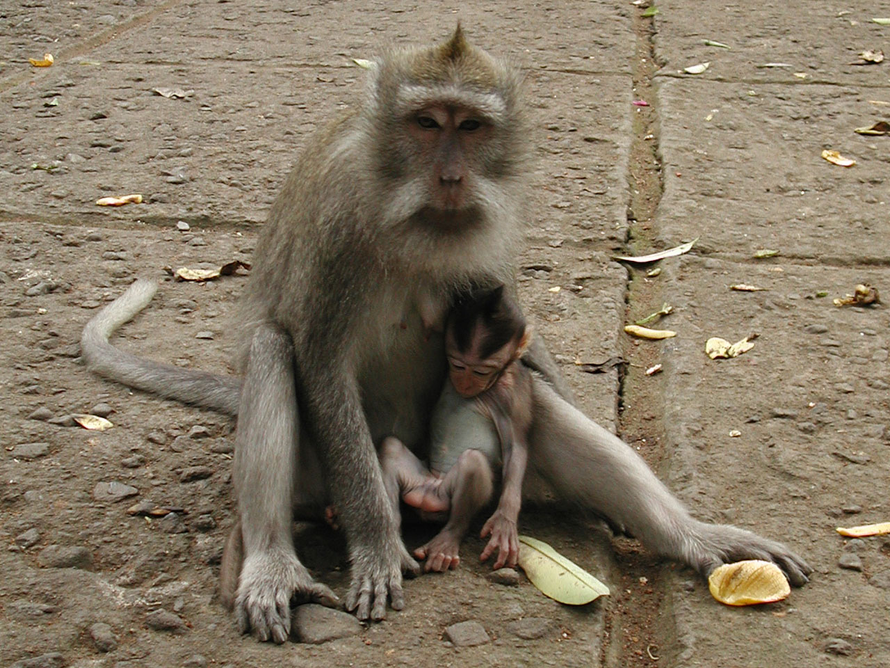 Two macaques in the Ubud Monkey Forest Sanctuary; Indonesia.